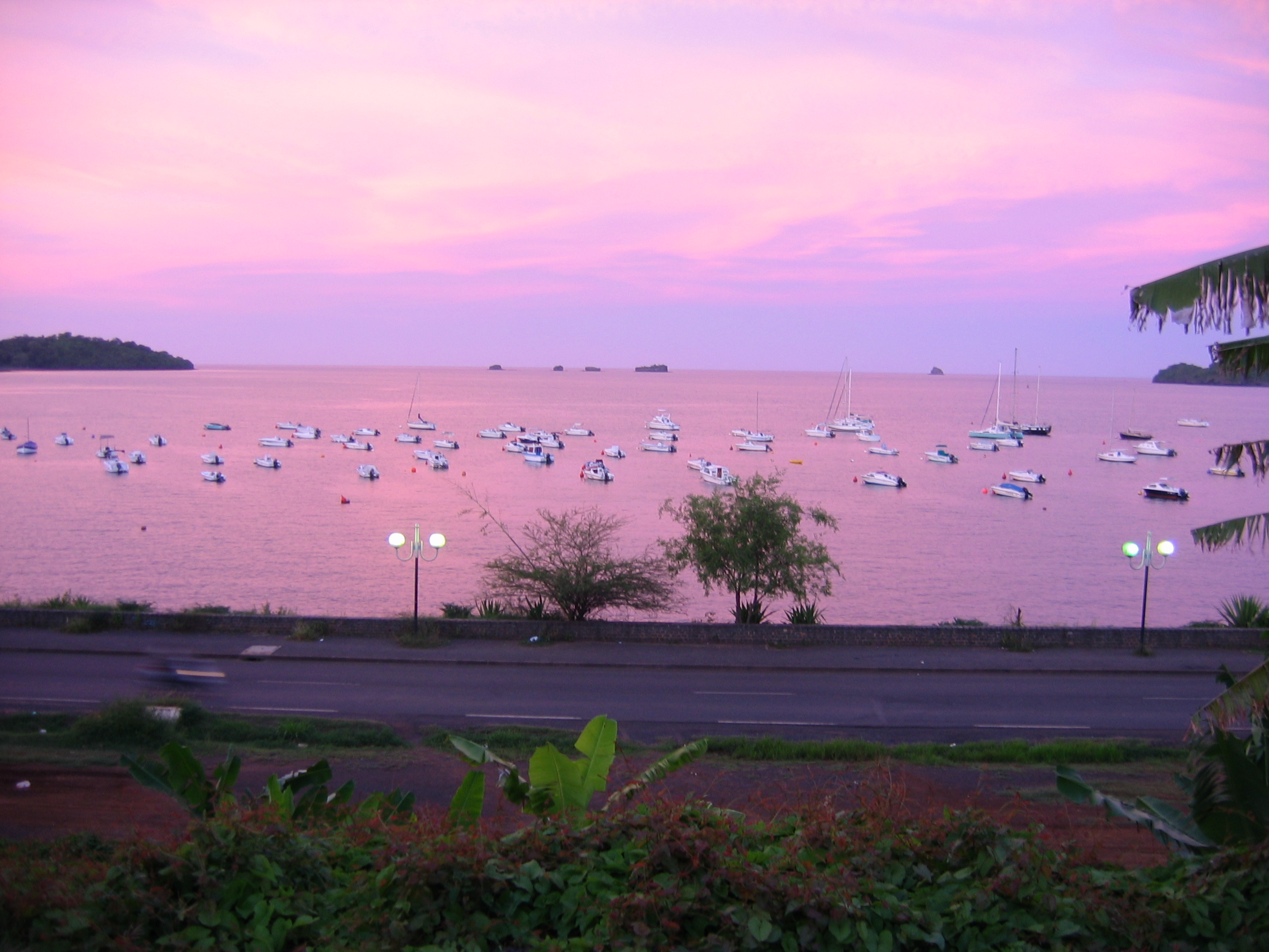 Rose sea taken in Mamoudzou - Mayotte Island - Indian Ocean (Note: the picture was taken but never modified with any software. This is a "true" picture, not artificial)